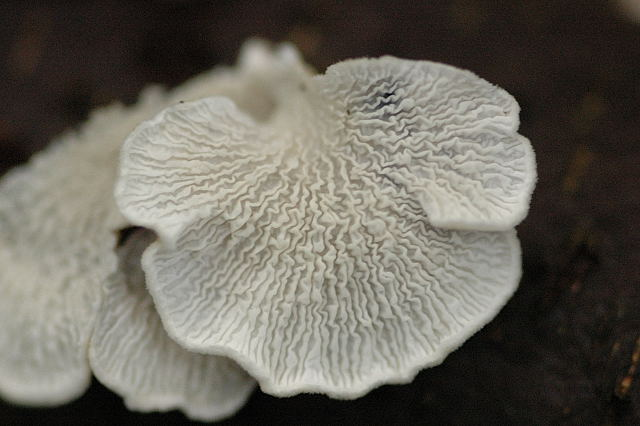 Plicaturopsis crispa from Commanster, Belgium. The determination of the species shown in this picture has been verified.